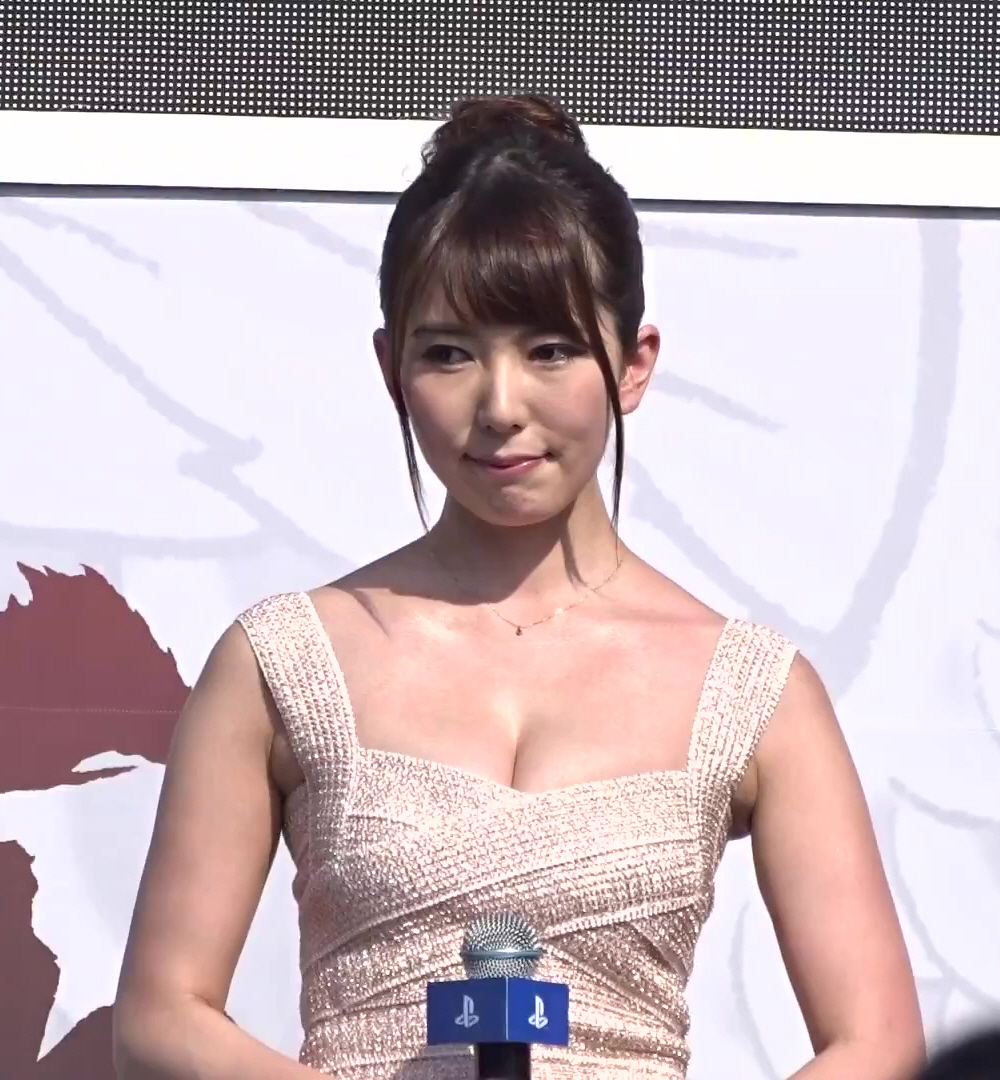 160528 Hatano Yui